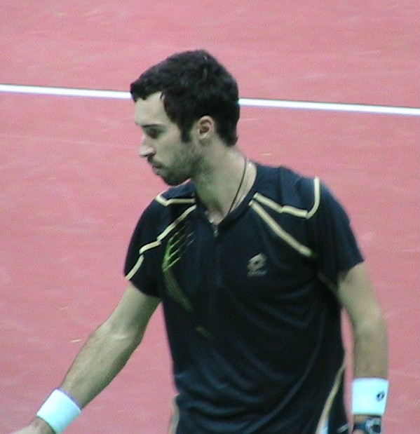 Mikhail Kukushkin at Kremlin Cup 2009